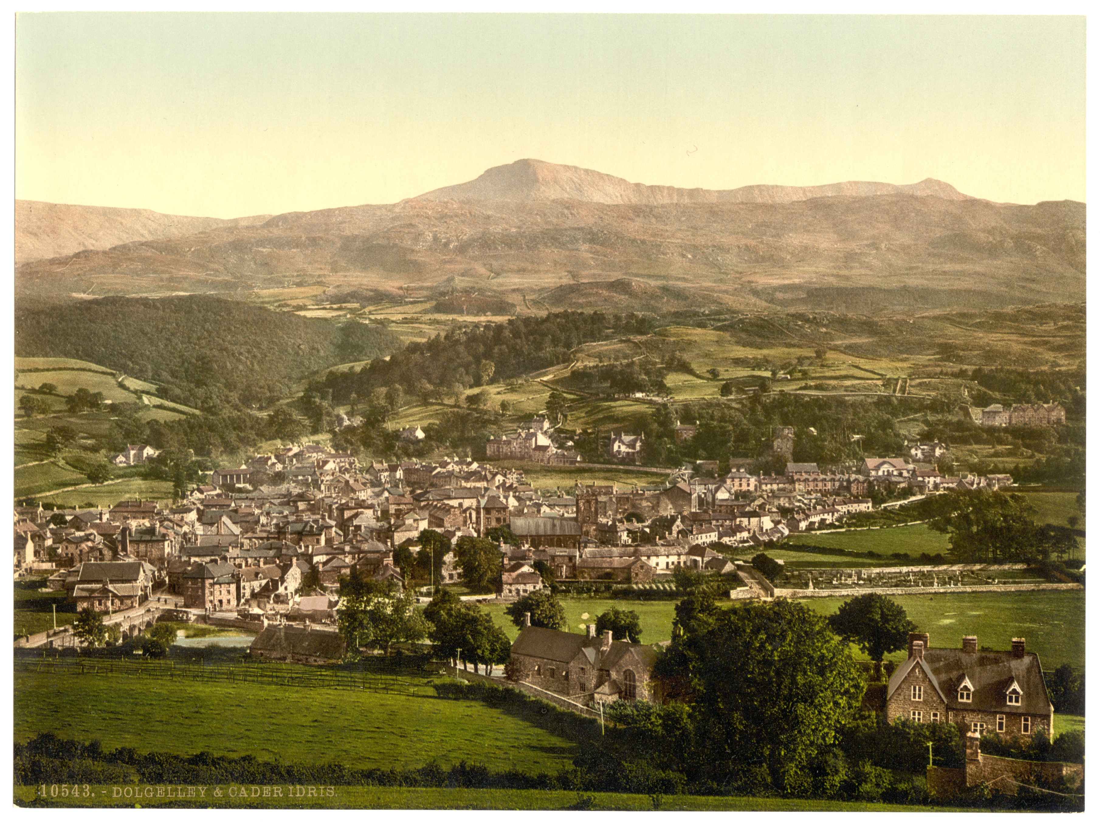 Title from the Detroit Publishing Co., catalogue J-foreign section. Detroit, Mich. : Detroit Photographic Company, 1905.; More information about the Photochrom Print Collection is available at Forms part of: Views of landscape and architecture in Wales in the Photochrom print collection.; Print no. "10543".